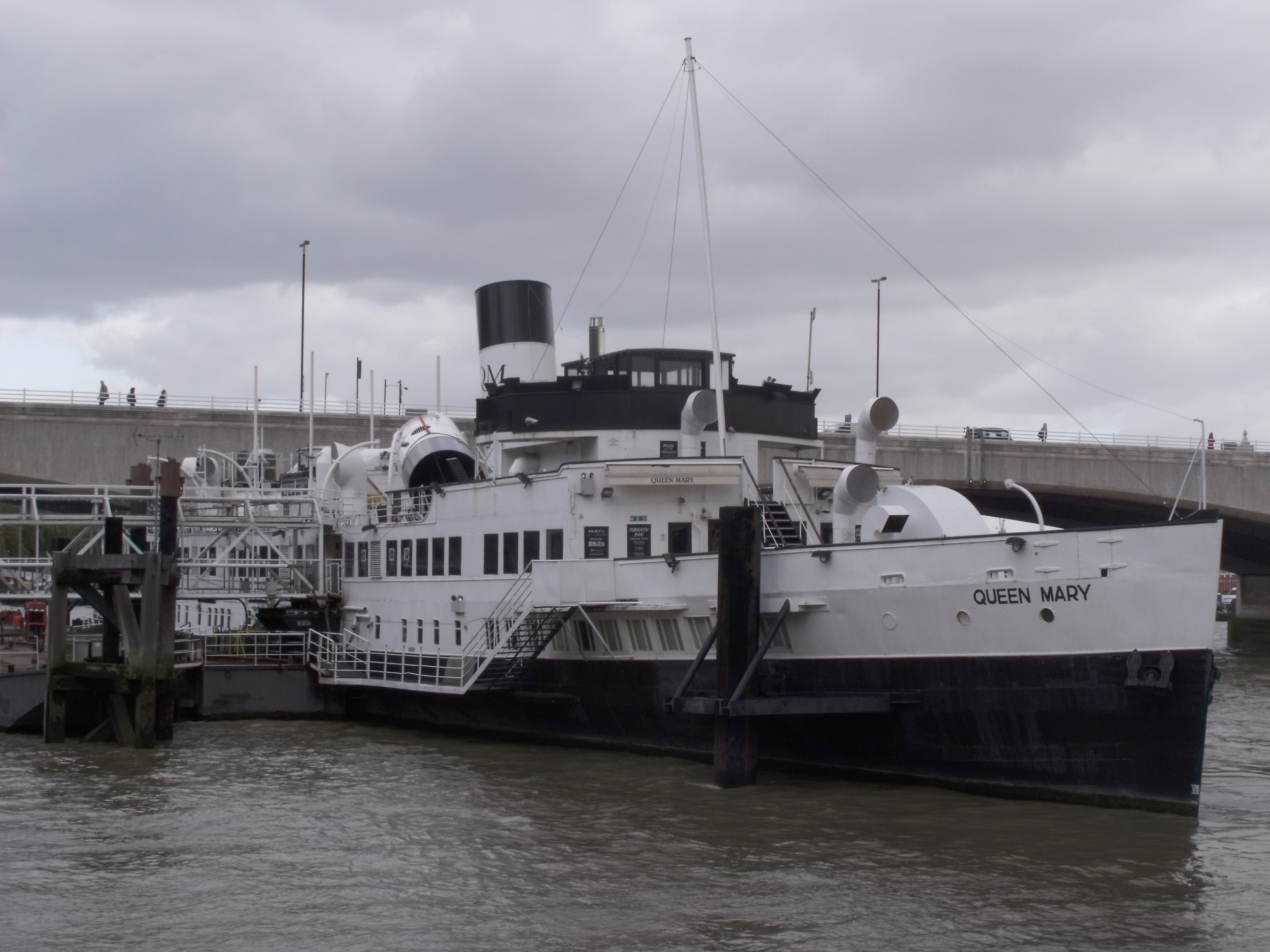 Backed by the Waterloo Bridge, this ship, TS Queen Mary is a boat bar docked on the Embankment. Originally a Clyde pleasure steamer, the Queen Mary was built with luxury in mind and is fully restored. It is a traditional pub until 9pm, then, until 2am, a nightclub called Hornblowers.